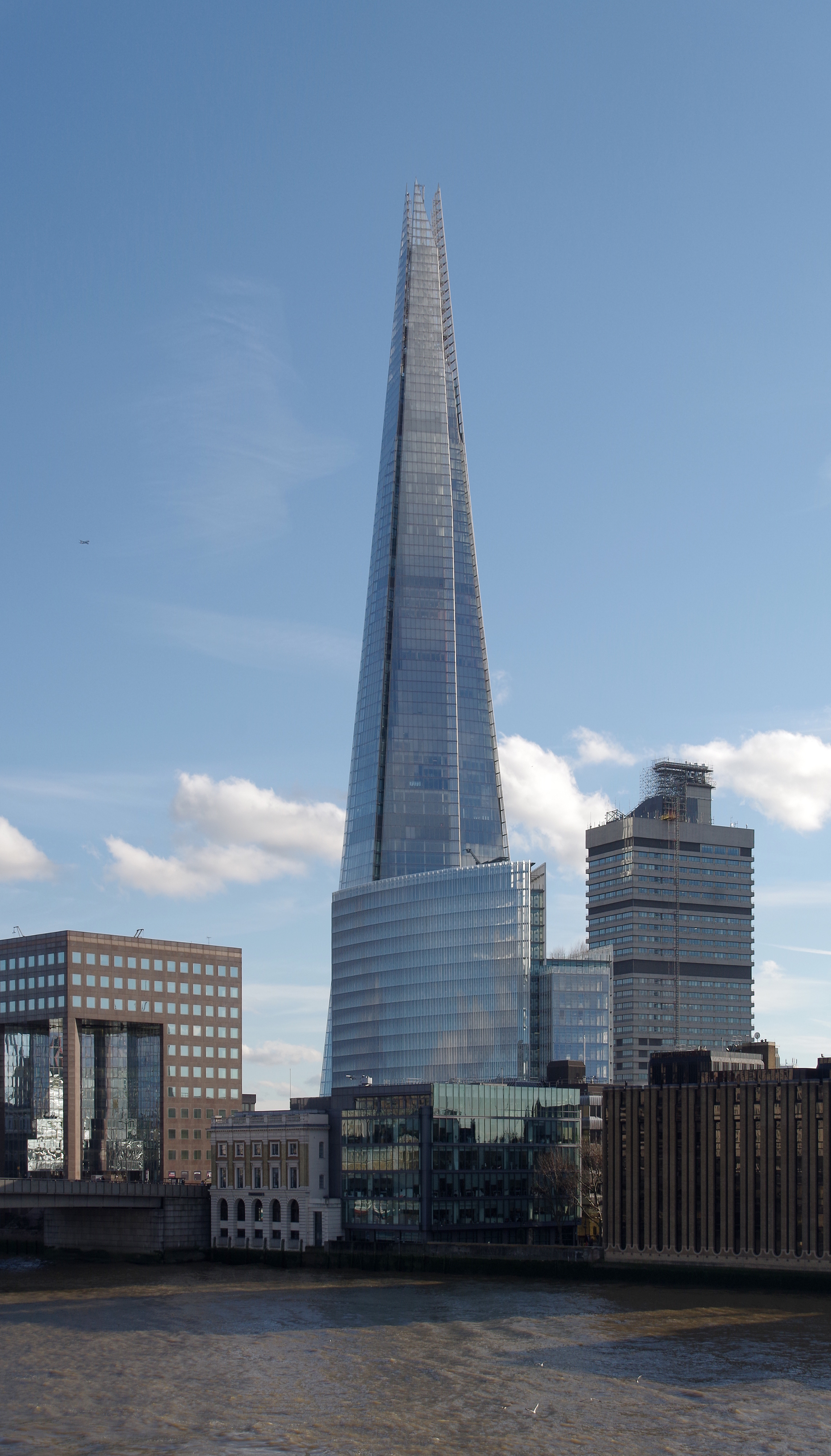 The Shard, seen from Cannon Street station.